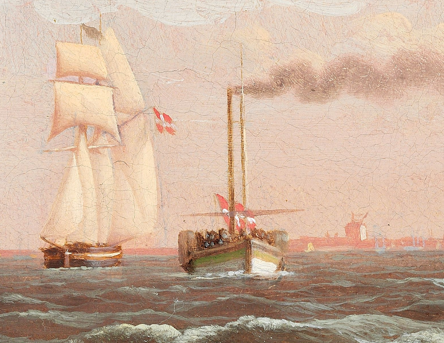 Detail of the painting En Fart til Charlottenlund. Dampskibet ‚Caledonia‘ kommer en Lystbaad imøde by Christoffer Wilhelm Eckersberg